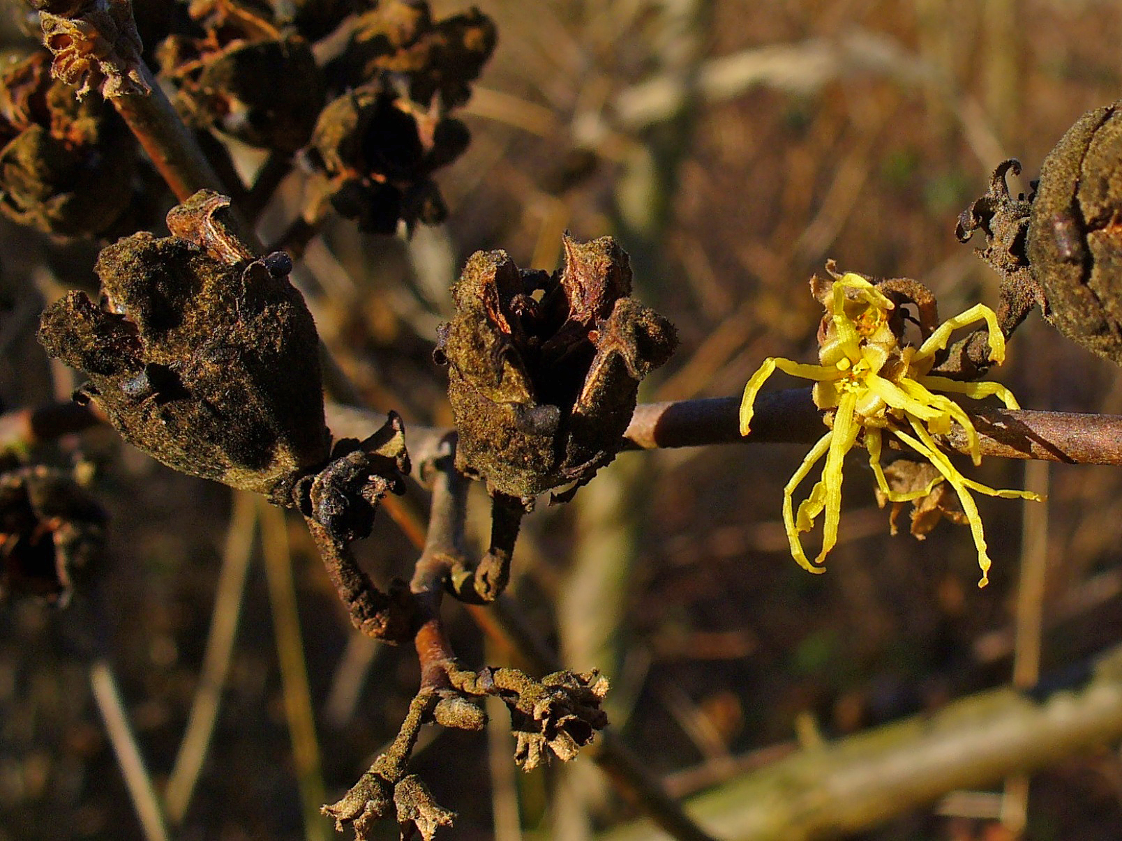 Hamamelis virginiana, Hamamelidaceae, Witch Hazel, flower and fruits; Karlsruhe, Germany. The bark of the roots and twigs is used in homeopathy as remedy: Hamamelis (Ham.)